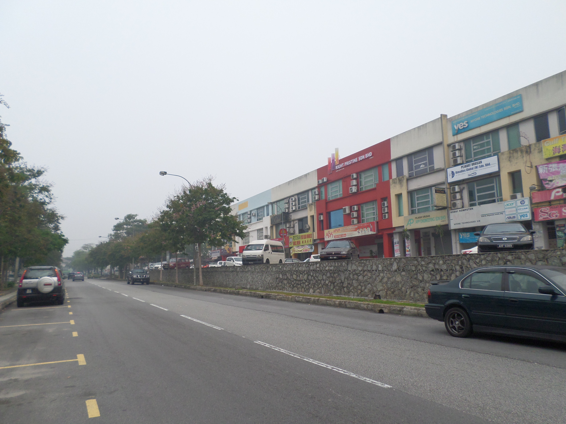 Kuchai Lama, Kuala Lumpur, MalaysiaBahasa Melayu: Kuchai Lama, Kuala Lumpur, Malaysia